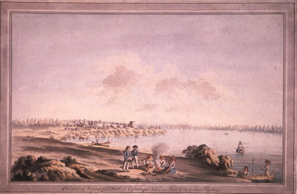 Watercolor. Title: "A View of the Ruins of the Fort at Cataraqui taken in June 1783 by James Peachey" Location: Fort Frontenac, Kingston, Ontario, Canada